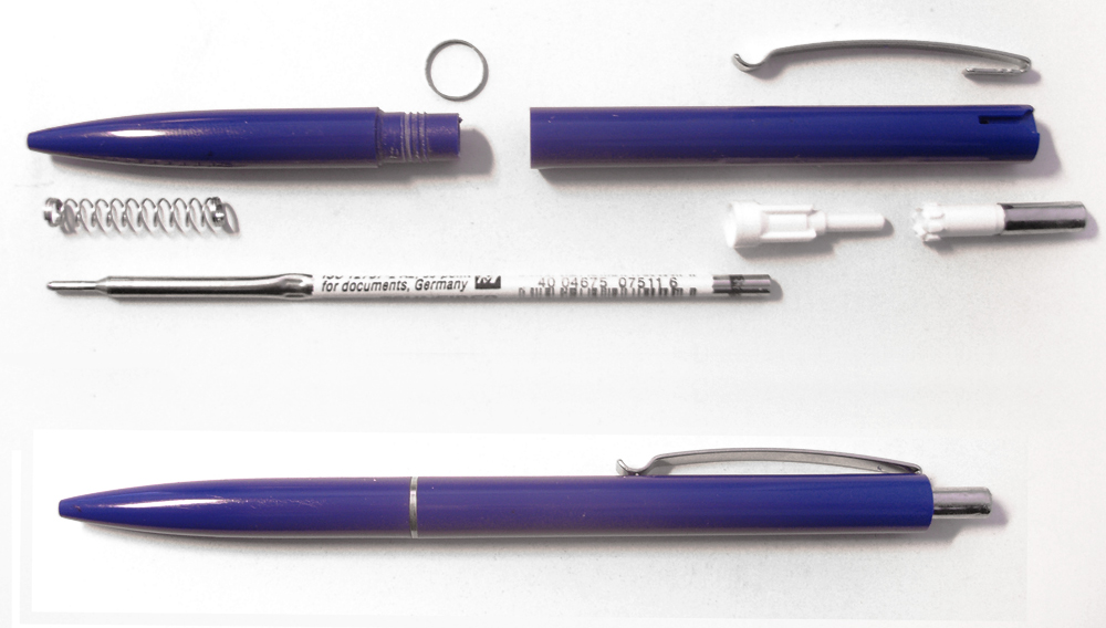 Schneider K15 ballpoint pen and the pen in parts